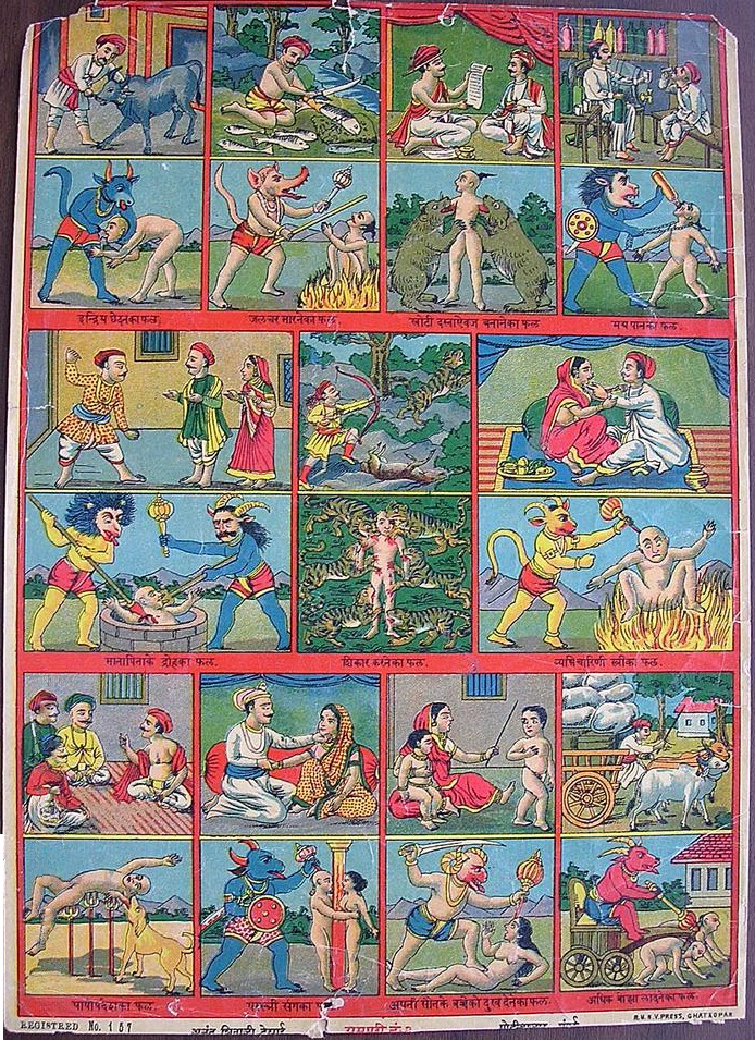 Naraka